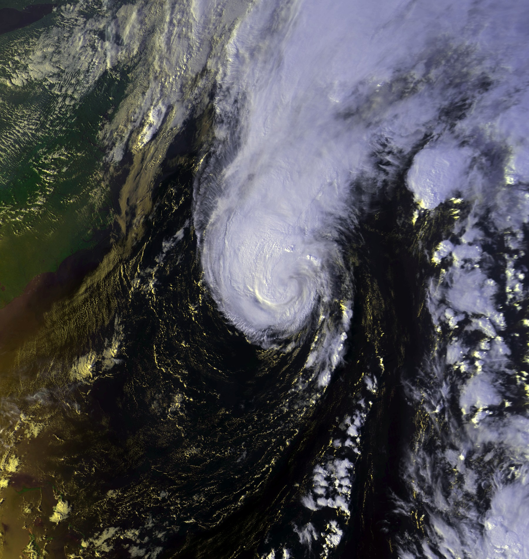 This image shows Hurricane Michael on October 18 2045 UTC. This image was produced from data from NOAA-14, provided by NOAA. Maximum sustained winds were around 80 to 85 mph.